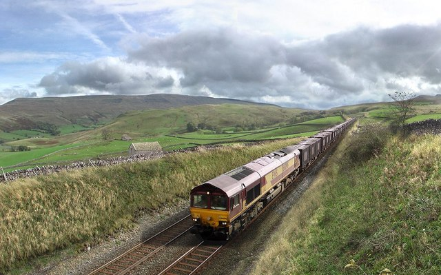 Birkett Common A Drax Power station to Kirkby Thore gypsum train on the S&C at Birkett Common, looking south towards Mallerstang Edge